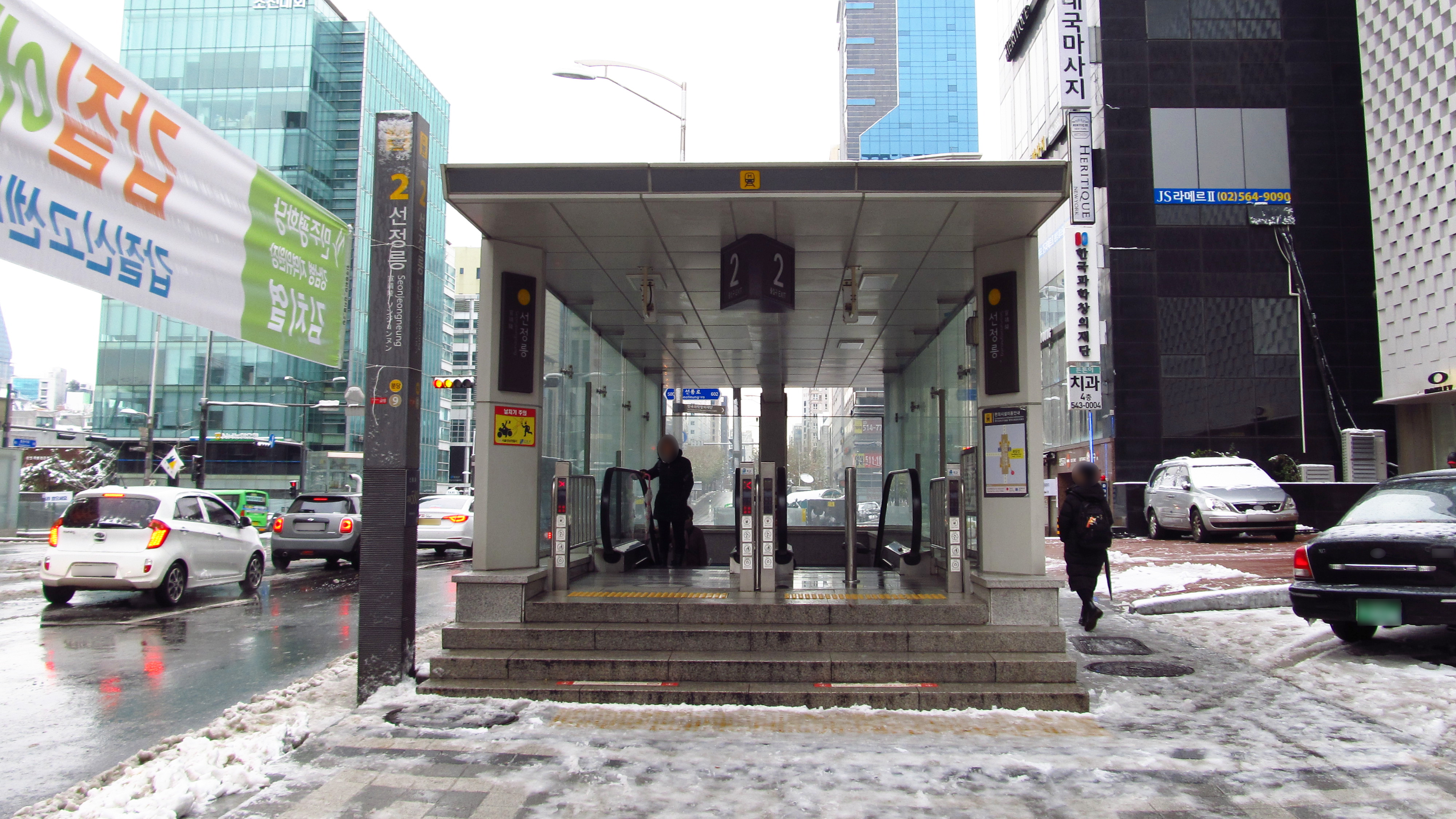 The no.2 entrance to Seonjeongneung Station on Seoul Subway Line 9 and Bundang Line in Gangnam-gu, Seoul, Republic of Korea(South Korea)